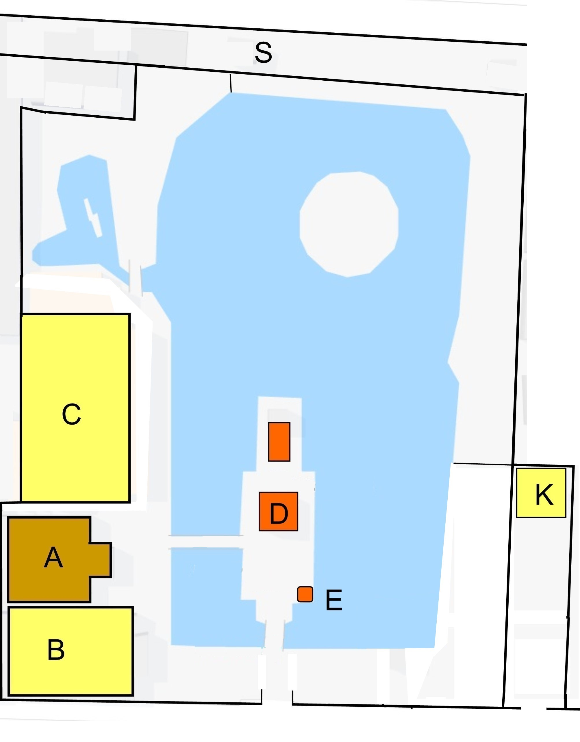 Park Shinsen'en at Kyoto